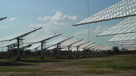 Solar Panels in Industrial Park La Amistad